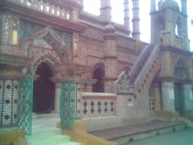 A local mosque of Parbatipur, Dinajpur. Image taken with Nokia 6020.